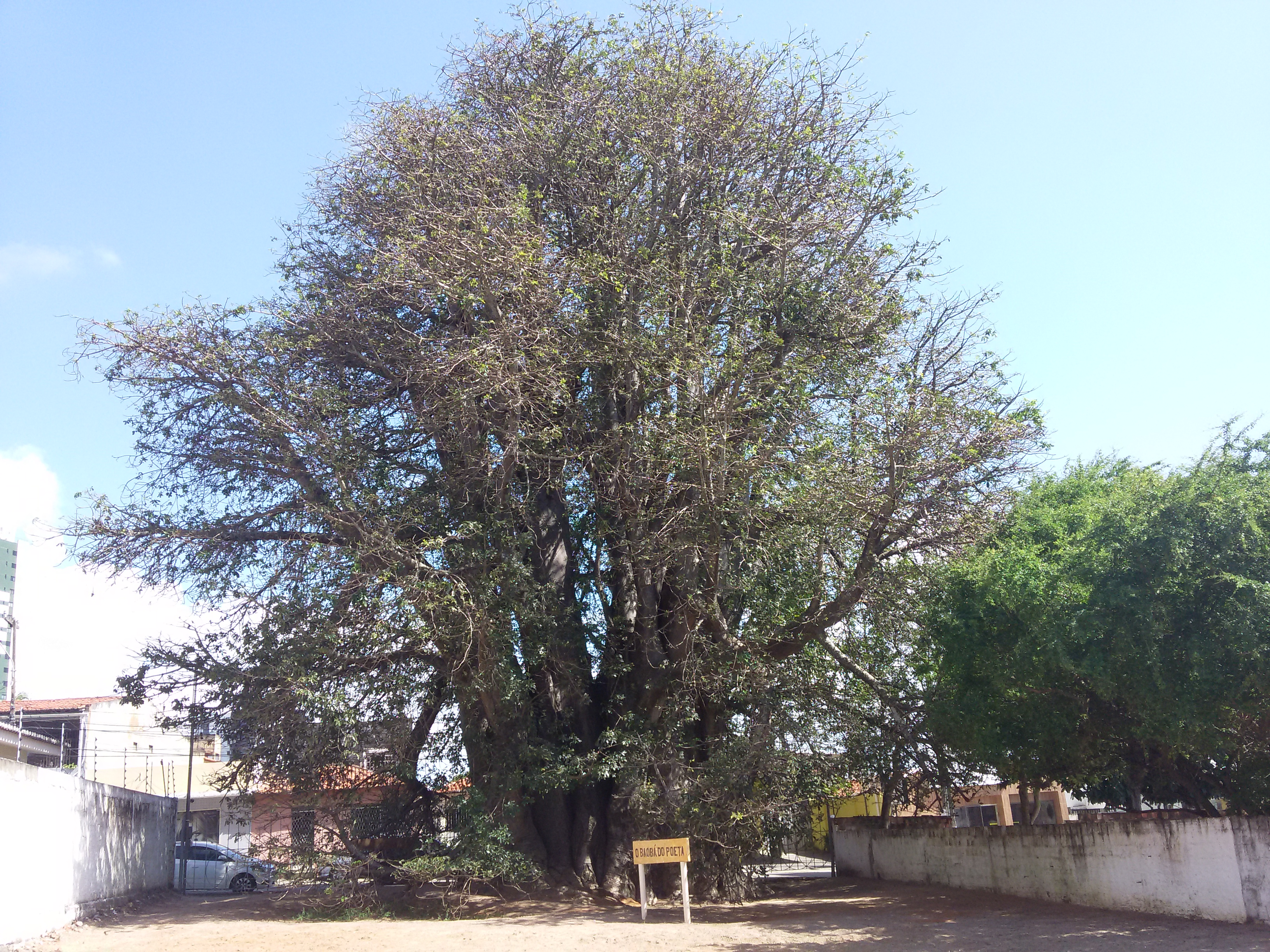 Baobab tree (Adansonia digitata) from Natal-RN, Brazil. This tree is named Poet's Baobab.